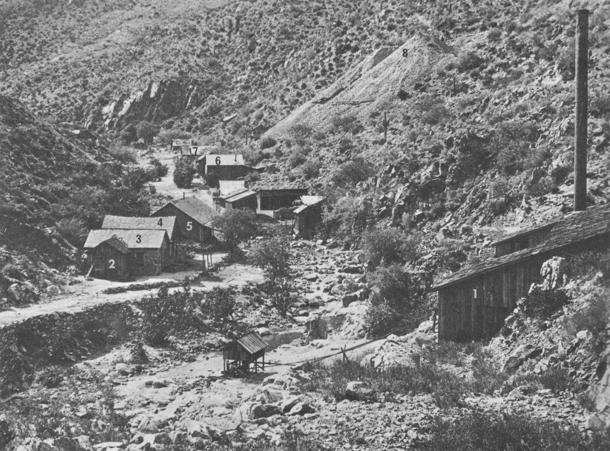 Northern end of Tip Top, circa 1888. Visible are the stamp mill (1), assay office (2), brewery (3), beer hall (4), restaurant (5), saloon (6), hotel (7), and mine workings (8).